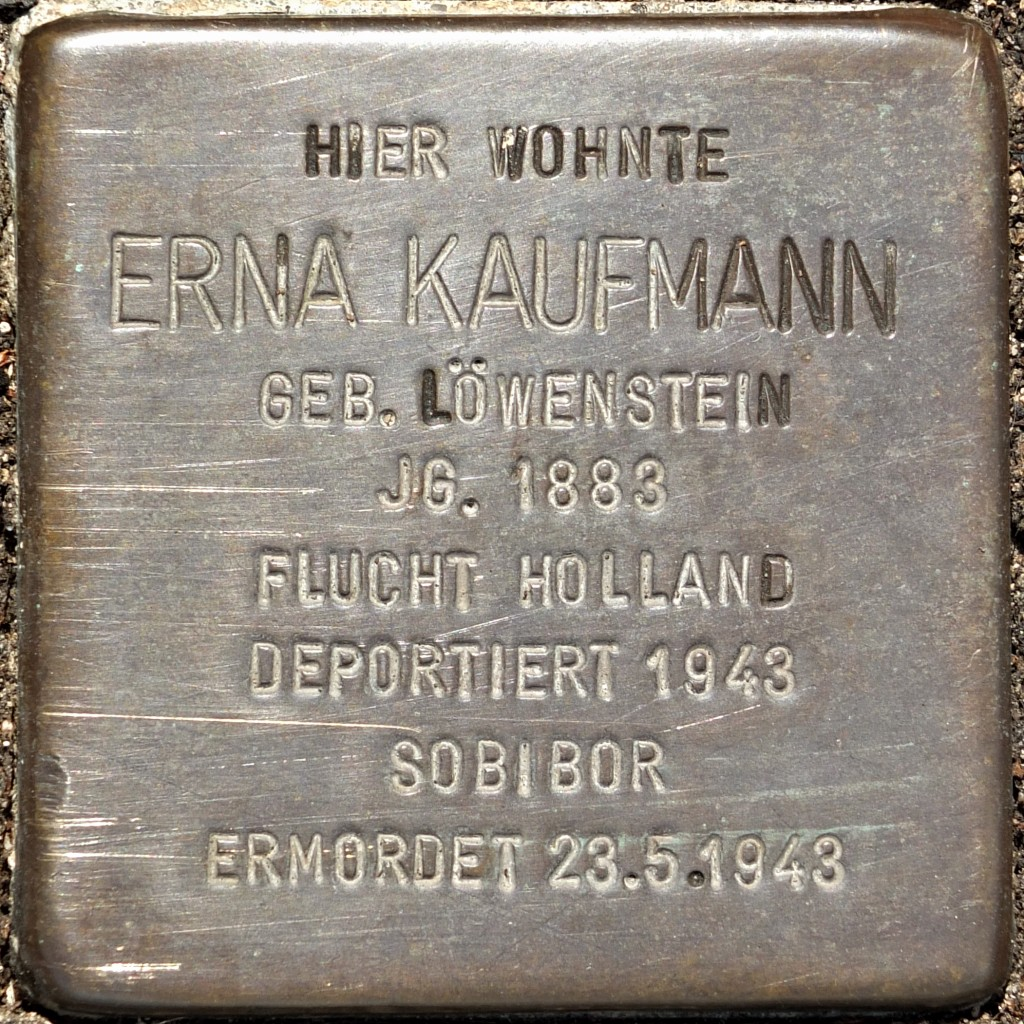 Stumbling block to remember Erna Kaufmann, Fritz-Gressard-Platz, at corner Mittelstr. (formerly Haus Hagdorn, Benrather Str. 1), Hilden, Germany